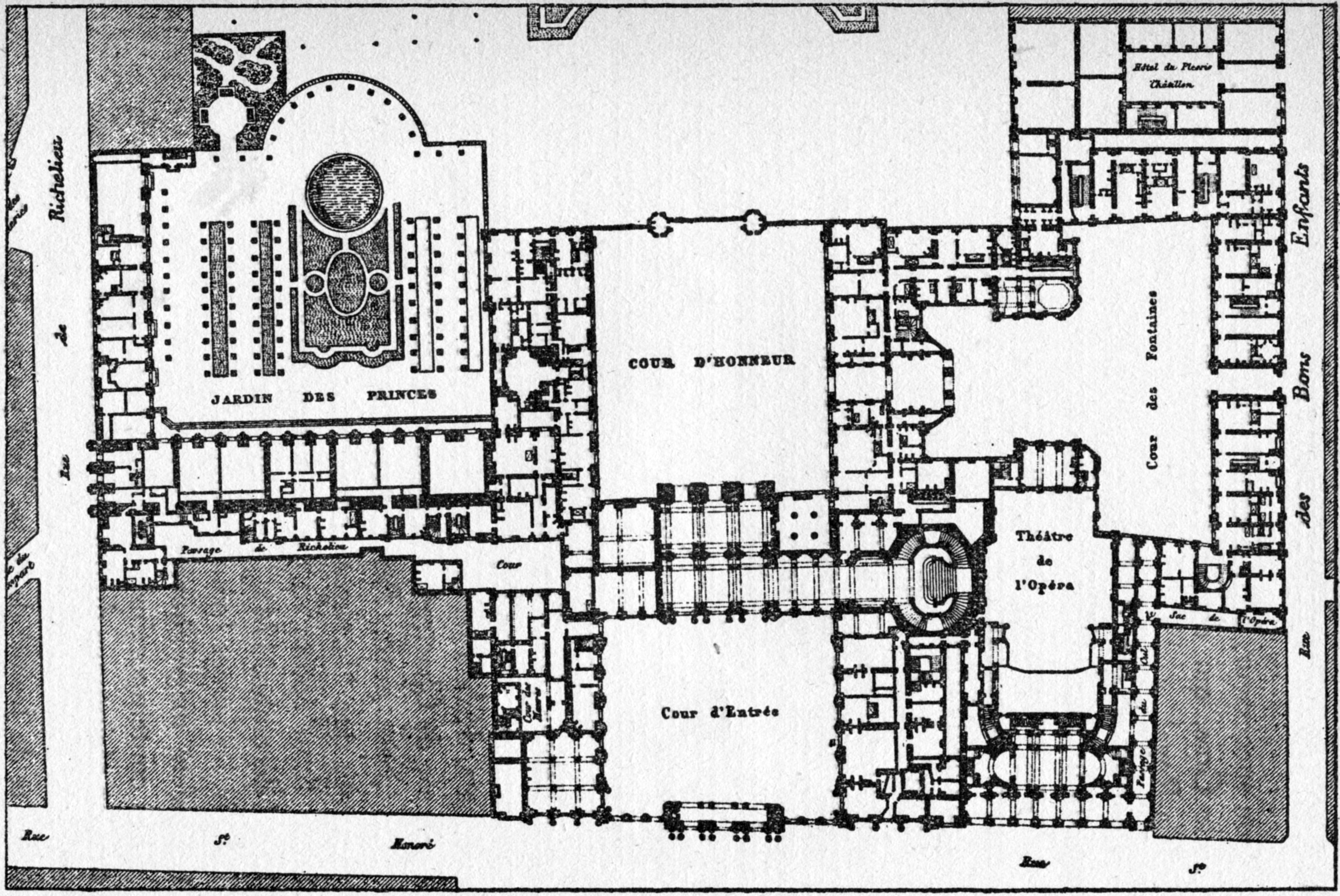 Plan of the ground floor of the Palais-Royal in 1780. This plan was reconstructed in 1829 by the French architect Pierre-François-Léonard Fontaine.